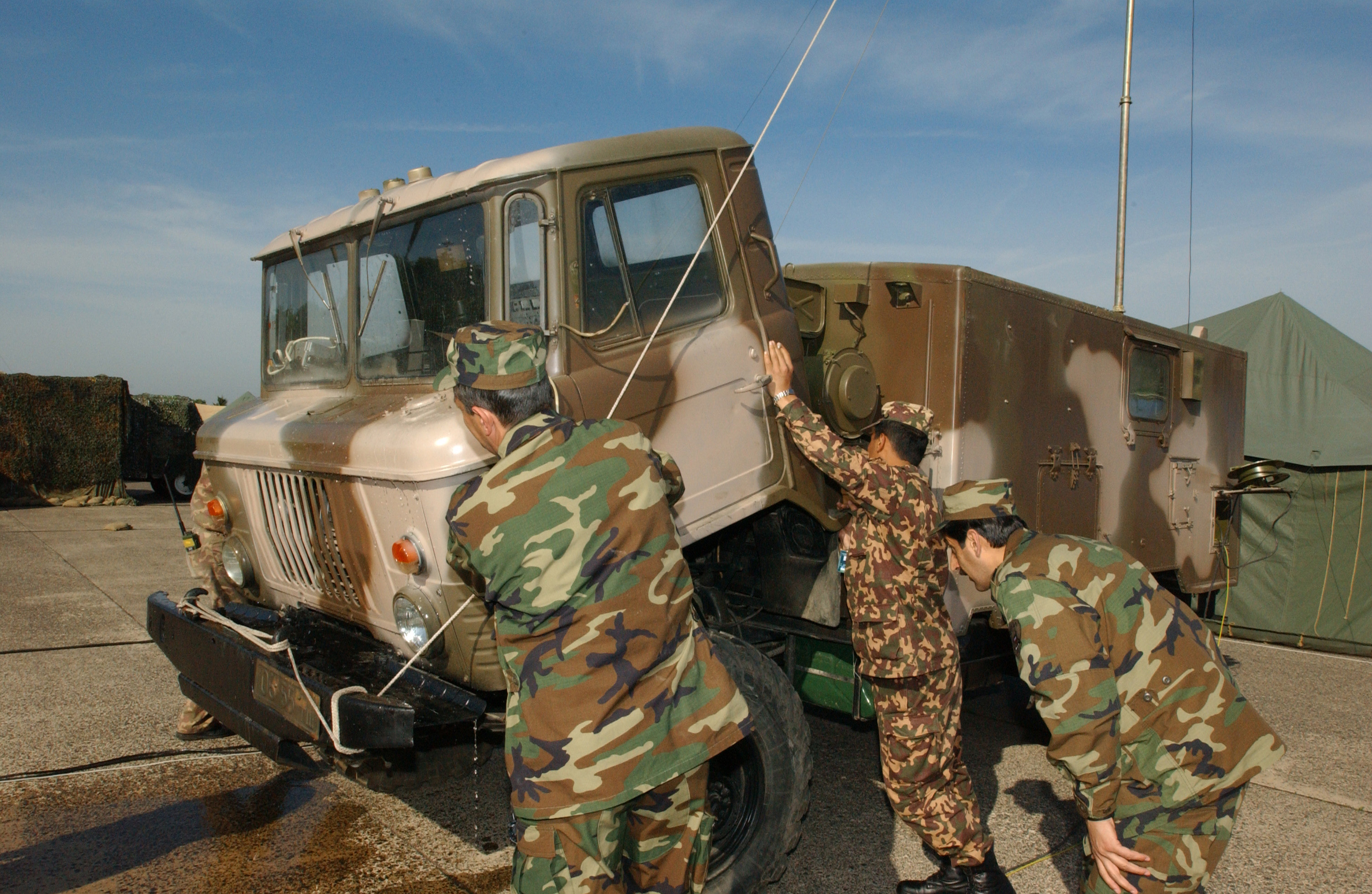 Capt. Botir Achilov of Uzbekistan (center) gets help from delegates of the Republic of Geaorgia accessing the engine of the Uzbekistan truck to remove a fan belt during Combined Endeavor here at Lager Aulenbach, Germany. Combined Endeavor '03, a U.S./European Command-sponsored exercise, is designed to identify and document command, control, communications, and computer (C4) interoperability between NATO and Partnership for Peace nations. Representatives from 38 countries and NATO are taking part in theexercise at Lager Aulenbach, Germany.